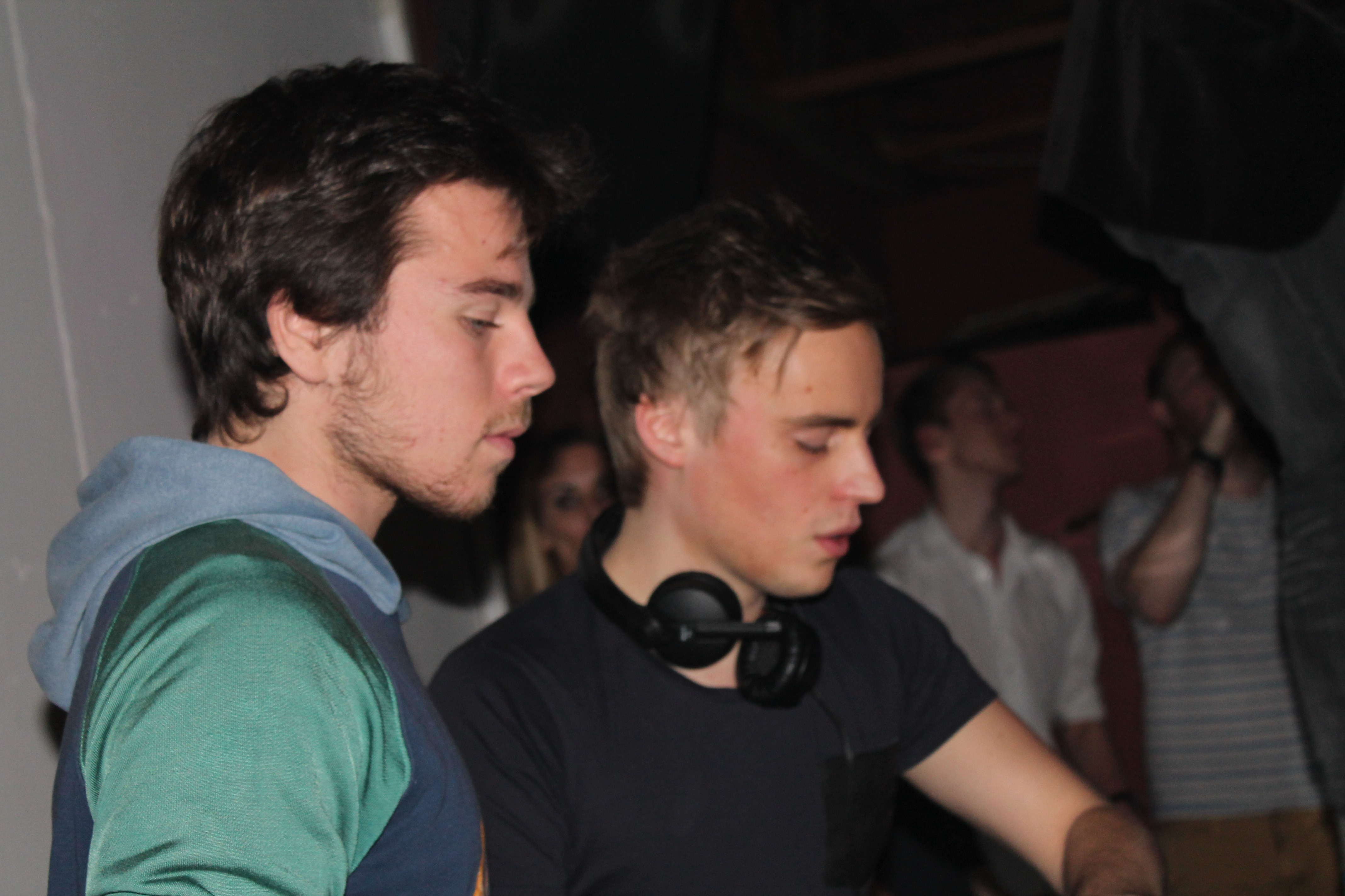 Klingande playing in "Kn4st" in Landshut (Lower Bavaria).